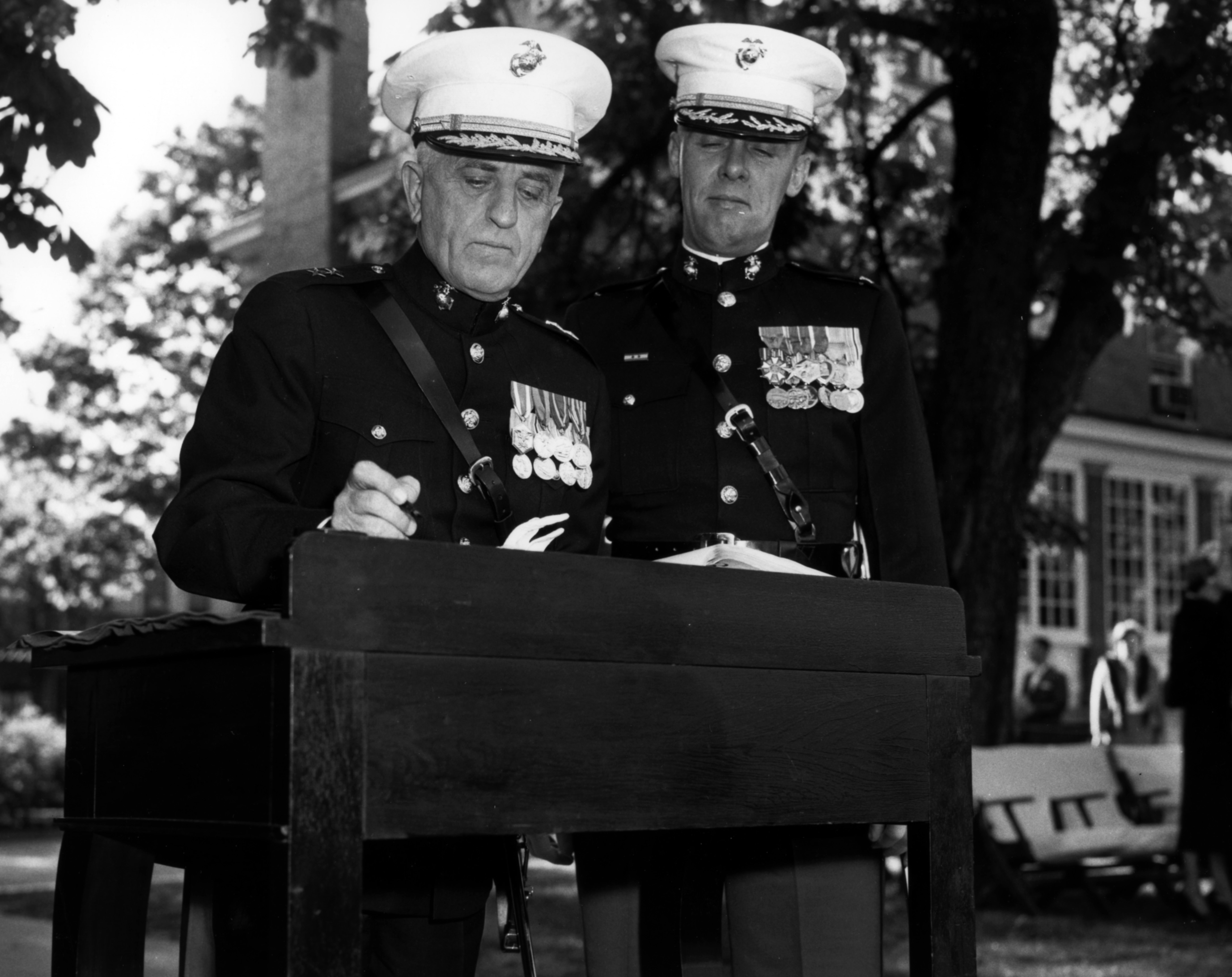 At the completion of the Sunset Parade at Marine Barracks, Washinton, D.C., Major General Roy M. Gulick, Quartermaster General of the Marine Corps, signs the guest book. Colonel Jonas M. Platt, Commanding Officer of the Marine Barracks looks on.